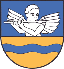 Coat of Arms of Ferna